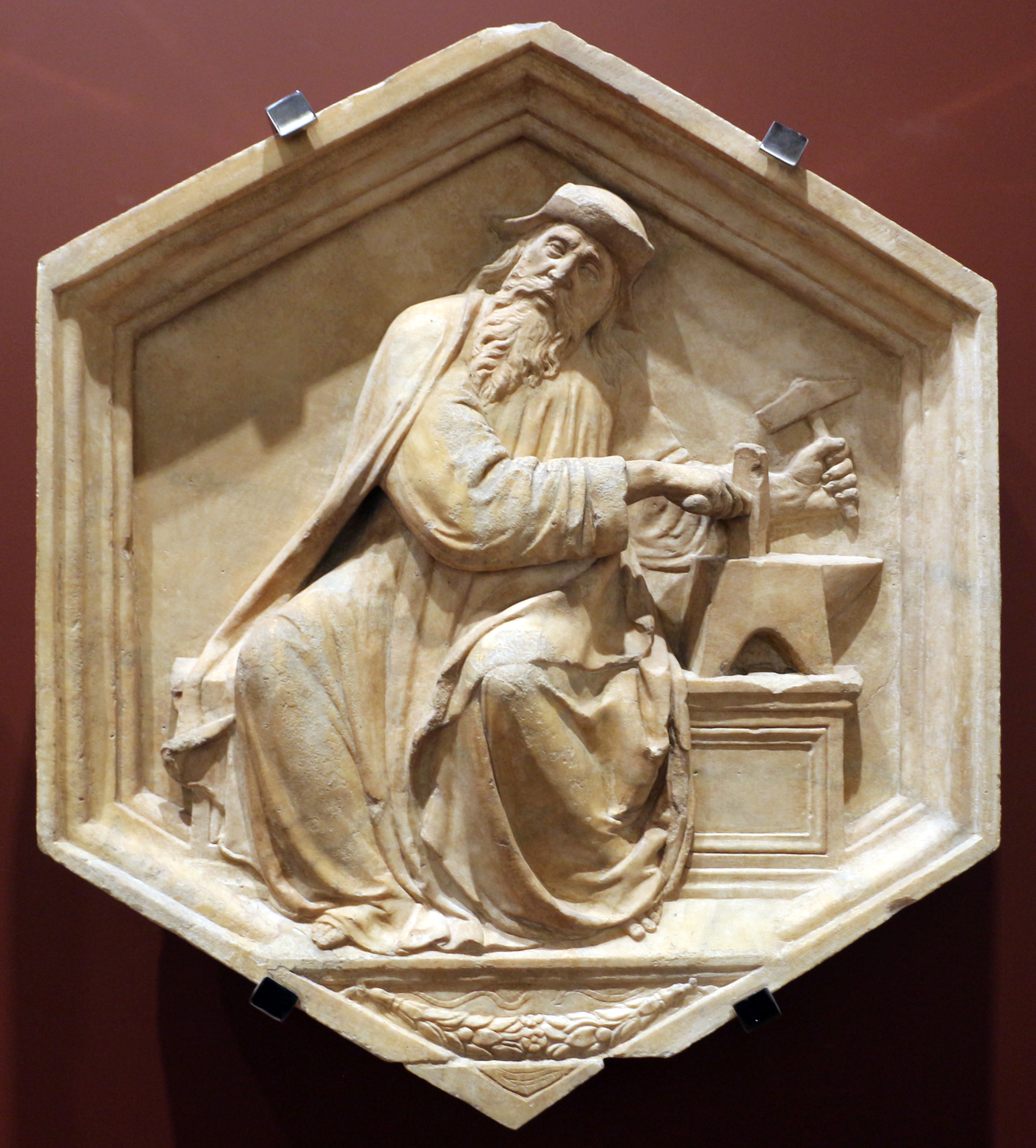 Reliefs of the Giotto's Belltower by Luca della Robbia